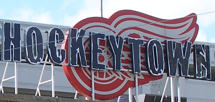 Hockeytown logo